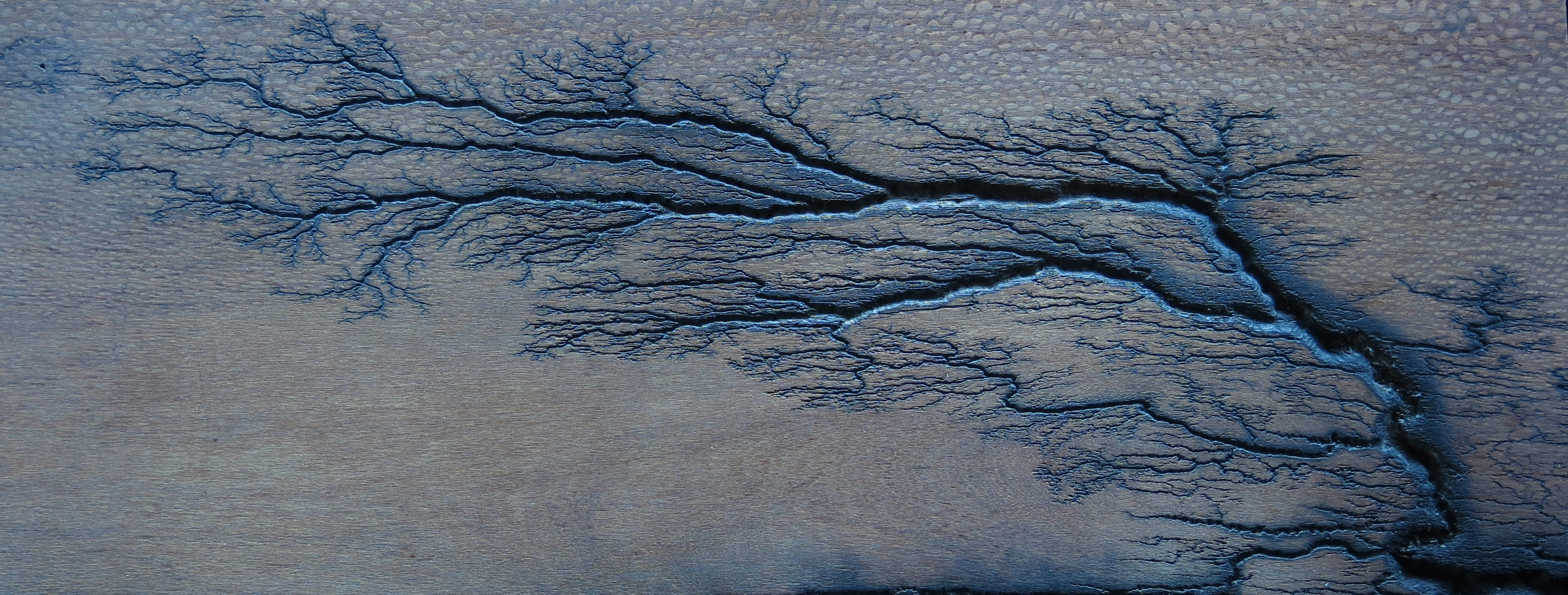 Bonsai Like Pattern On LeopardWood